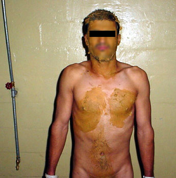 8:06 p.m., Nov. 28, 2003. Detainee in the shower area of the hard site. The detainee is covered in what appears to be human feces. All caption information is taken directly from CID materials. U.S. Army / Criminal Investigation Command (CID). Seized by the U.S. Government. Note: One of the previously unreleased images released in February 2006 by SBS in Australia. Showing a man allegedly covered in feces forced to pose for the camera. Taken from